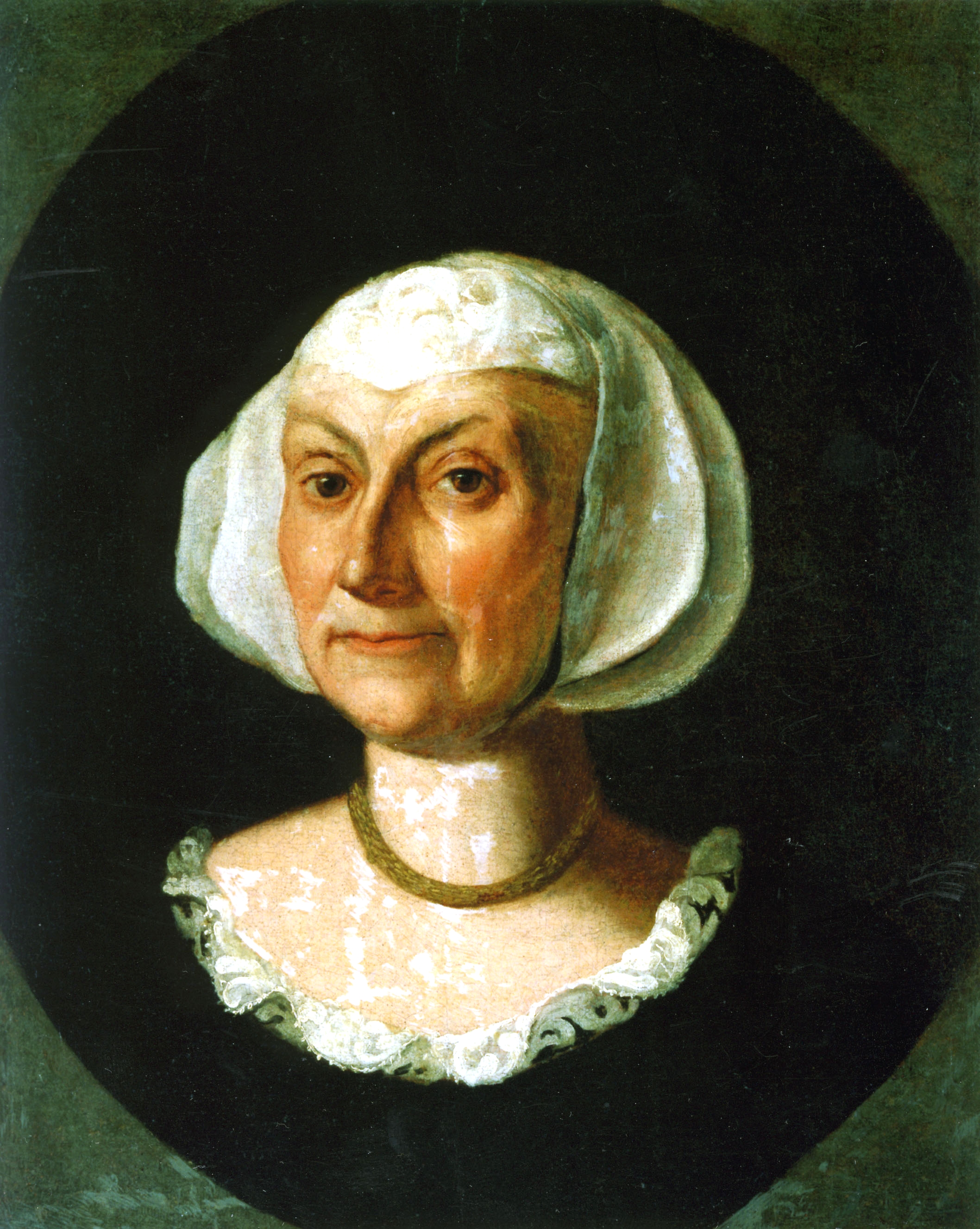 Rosina Schnorr, um 50 years old